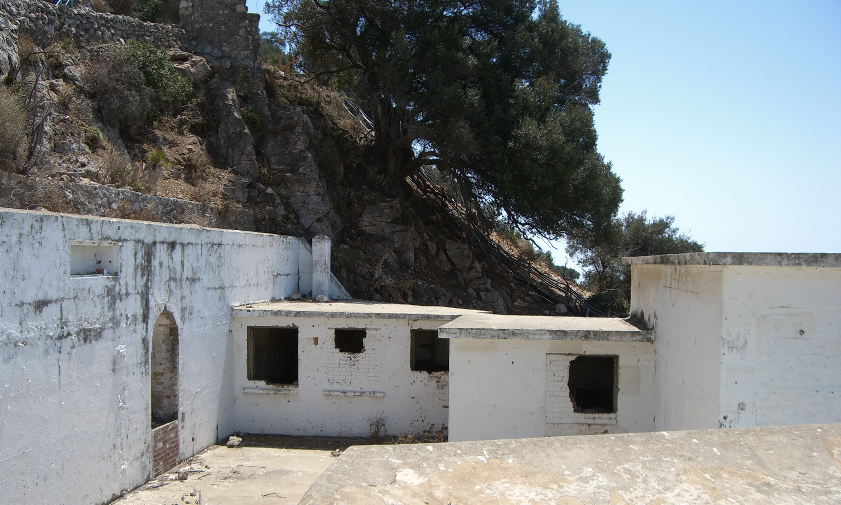 Photograph of buildings at Rooke Battery, Gibraltar.